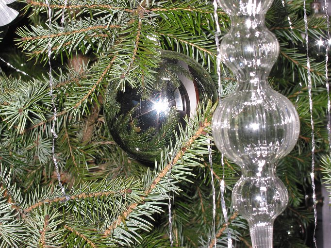 Christmas bulb in Nordmann fir